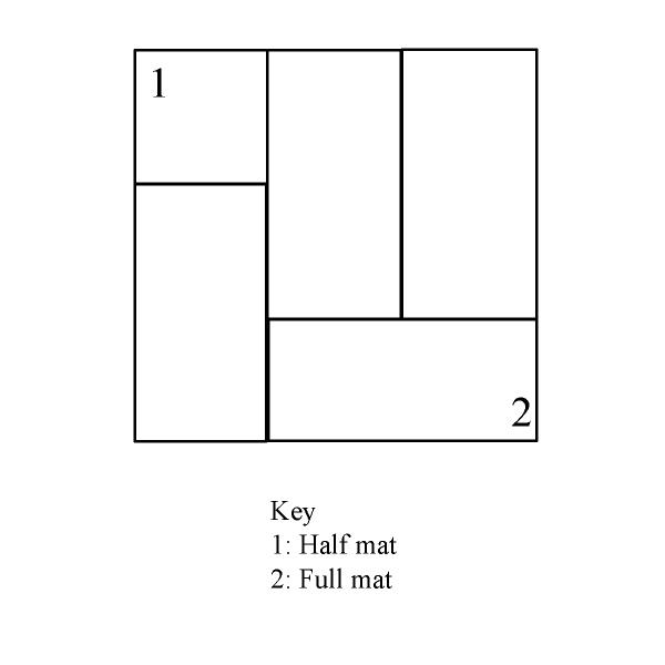 Typical layout of a 4 1/2 mat tatami room. Note that there are no areas where three or more corners meet.